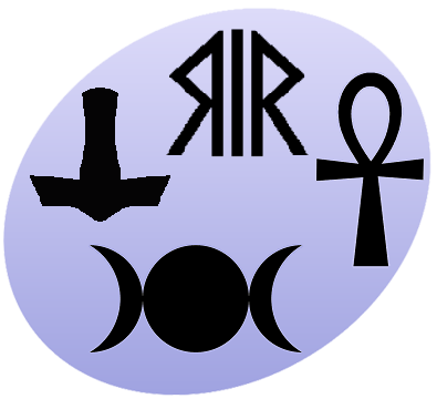 P-icon for Pagan topics